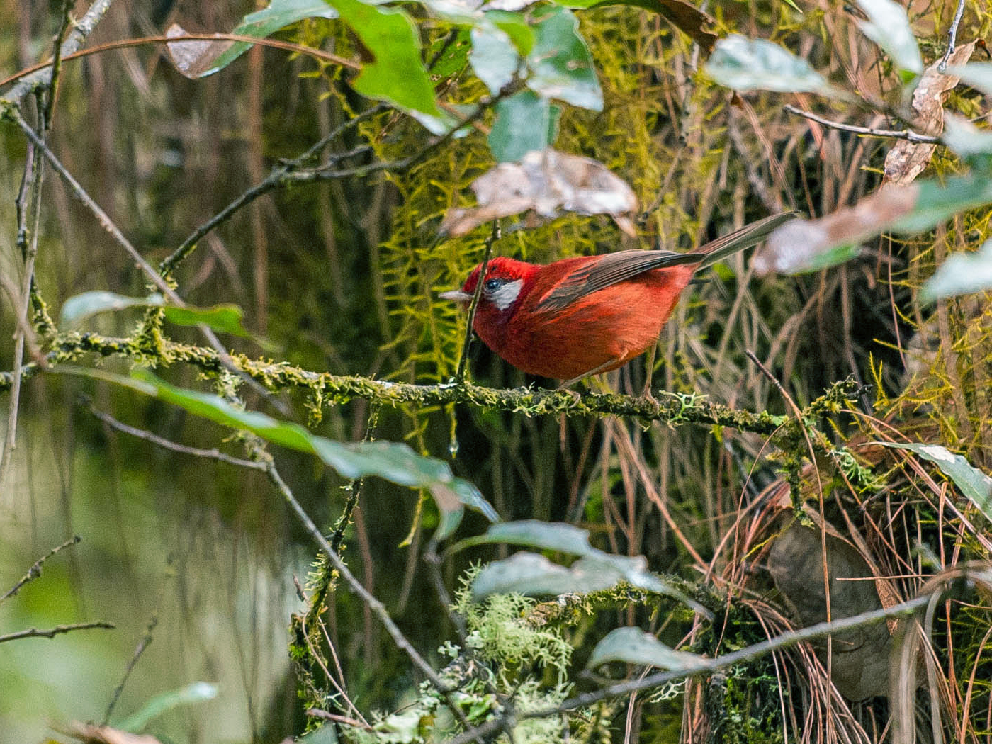 A red warbler in foliage